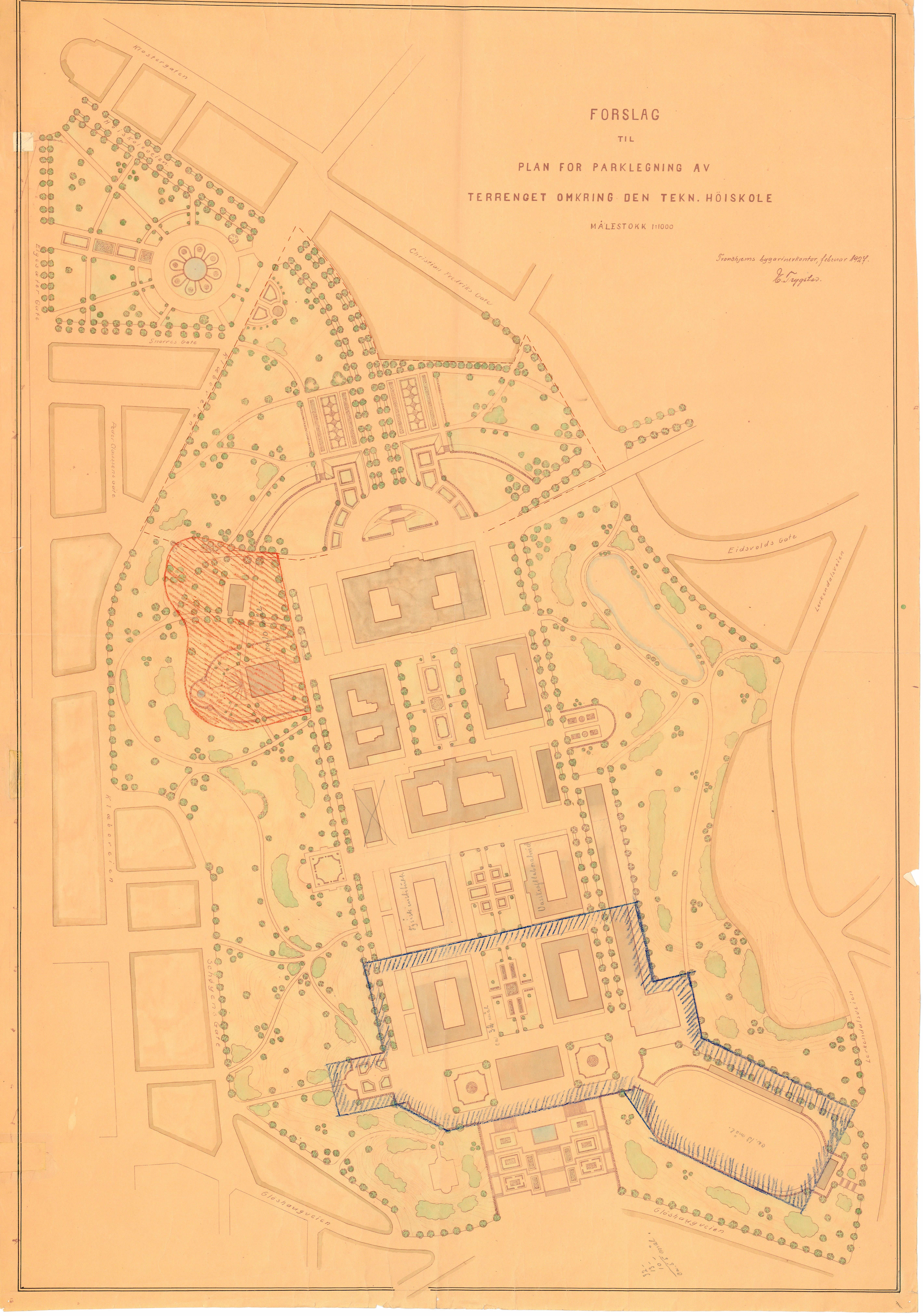 Plan for the park and plants on and around what is now known as Campus NTNU Gløshaugen, Trondheim.